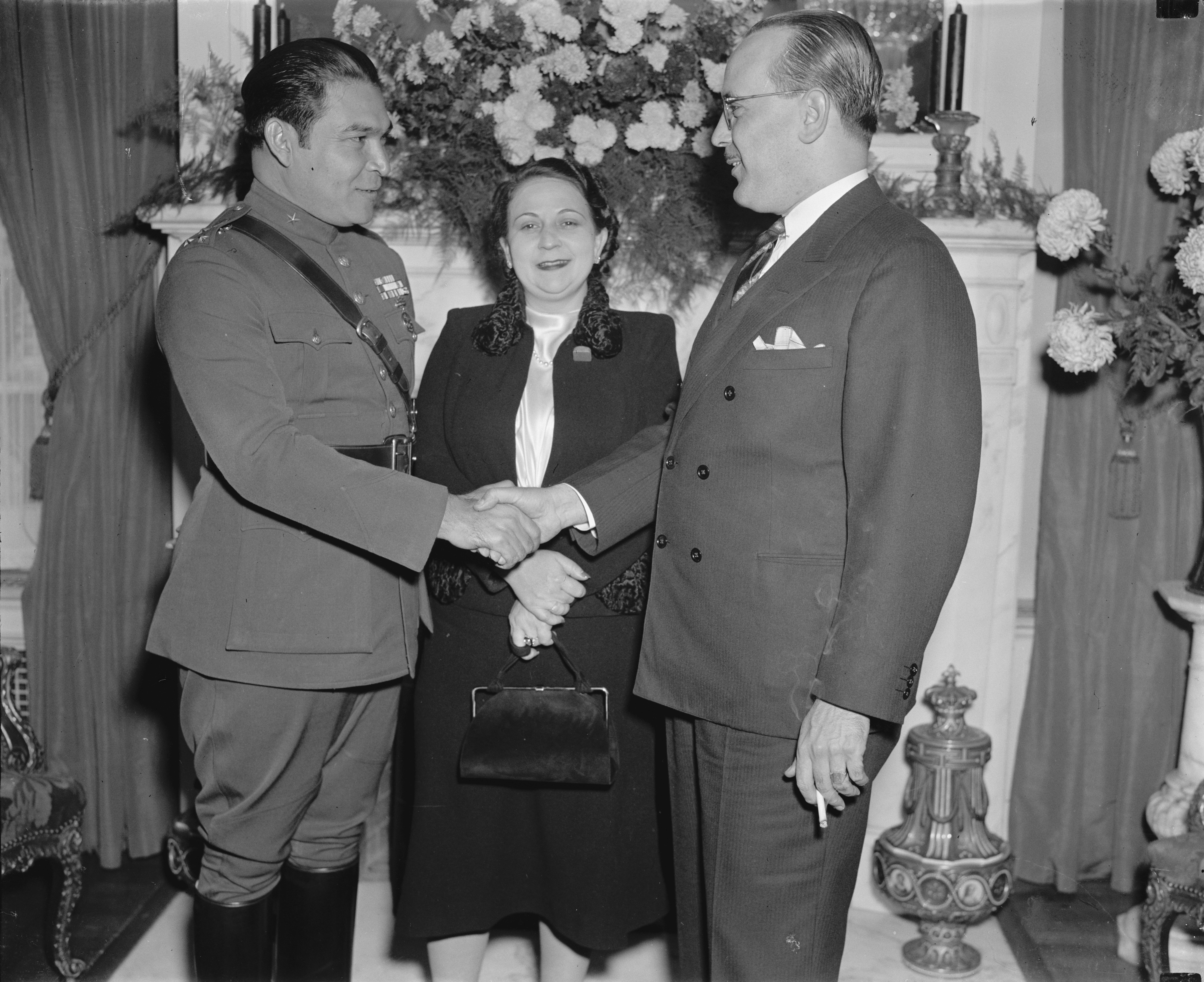 "The Cuban Dictator and the Mrs." Washington, D.C., Nov. 10. Col. Fulgencio Batista, the Cuban Army Sergeant who rose to the Dictatorship of Cuba, arrived in Washington today for a round of military reviews and dinners of state which will screen some fine international conversations, the visit has a high flavor of mystery, the War Department has been at elaborate pains to stick to its story that the Colonel, who never set foot outside of Cuba until two days ago, is suddenly traveling at the age of thirty seven years, he is shown with his seldom photographed wife (Elisa Godinez-Gómez), and the ambassador from Cuba Dr. Pedro Fraga[?], at the Cuban Embassy, 11/10/38